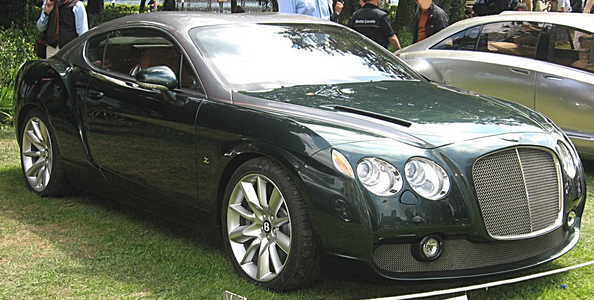 Subject:Bentley GTZ (2008), coachbuilding by Zagato Date:April 27th, 2008 Event:Concorso d’Eleganza”Villa d’Este” 2008 Place/Country: Cernobbio (CO), Italy I release all rights in the public domain.